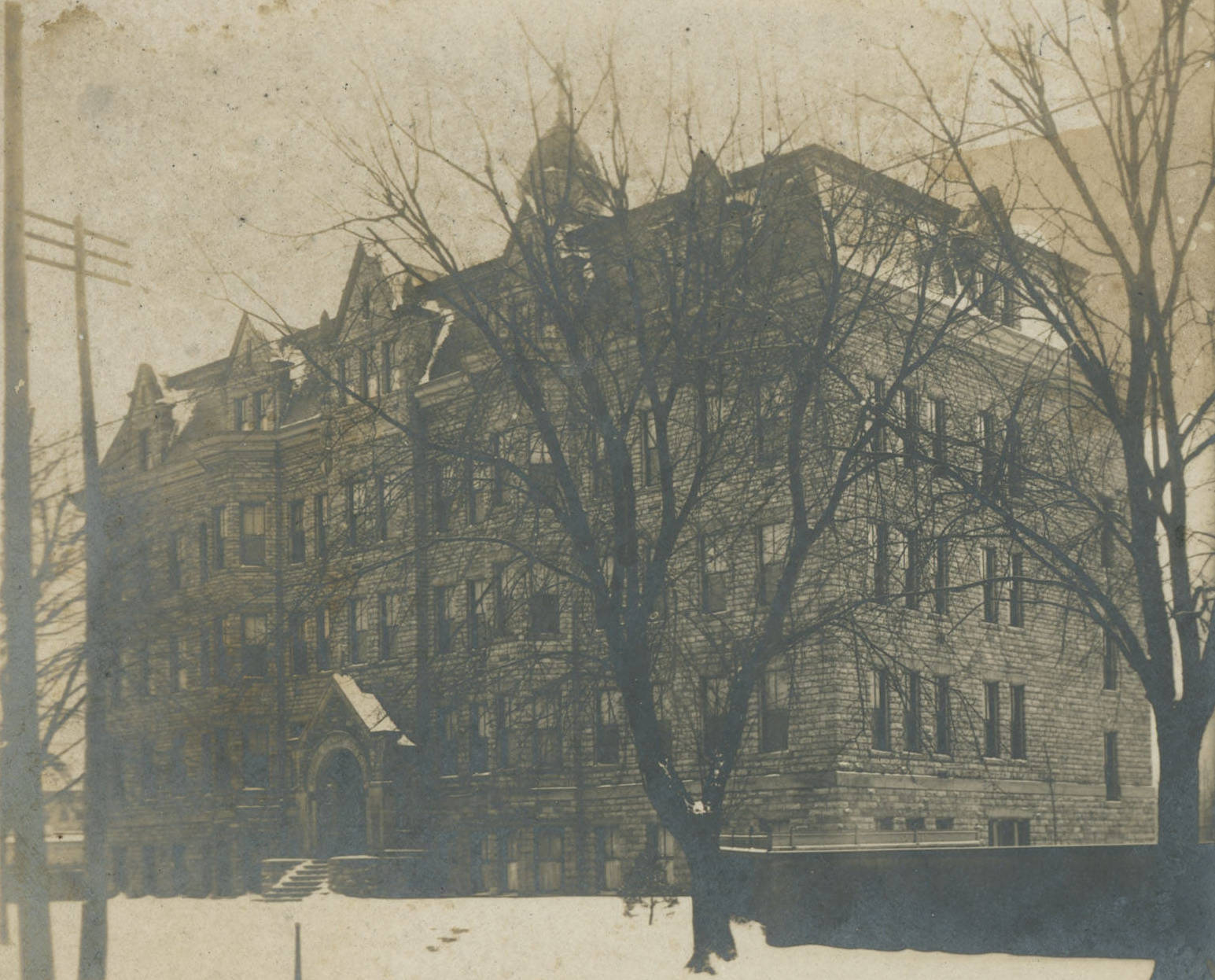 A postcard from the Ken Levin Toledo Postcard Collection, donated by Toledo resident, Ken Levin. The collection contains picture postcards about the Toledo area. Mr. Levin’s collection was published by the Toledo Blade in a book entitled “You Will Do Better in Toledo: From Frogtown to Glass City”, edited by Sandy and John R. Husman.